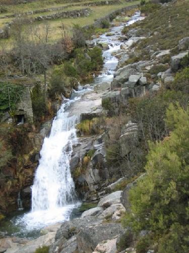 Waterfall in Agarez, Vila Real, Portugal